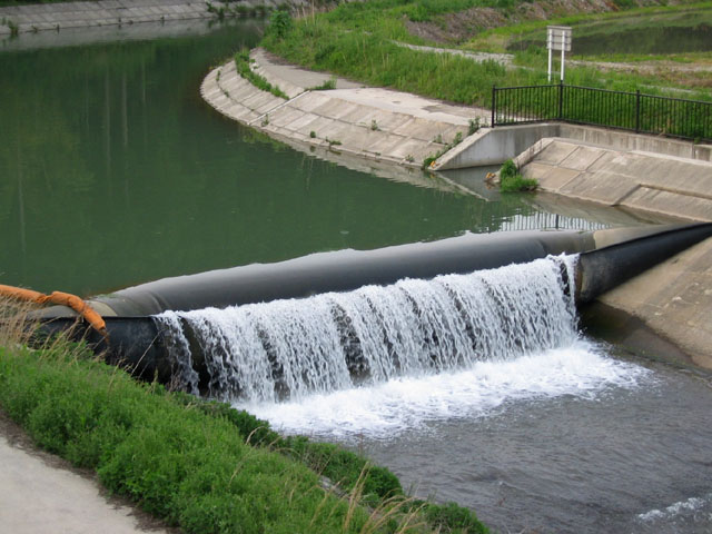 inflatable rubber dam